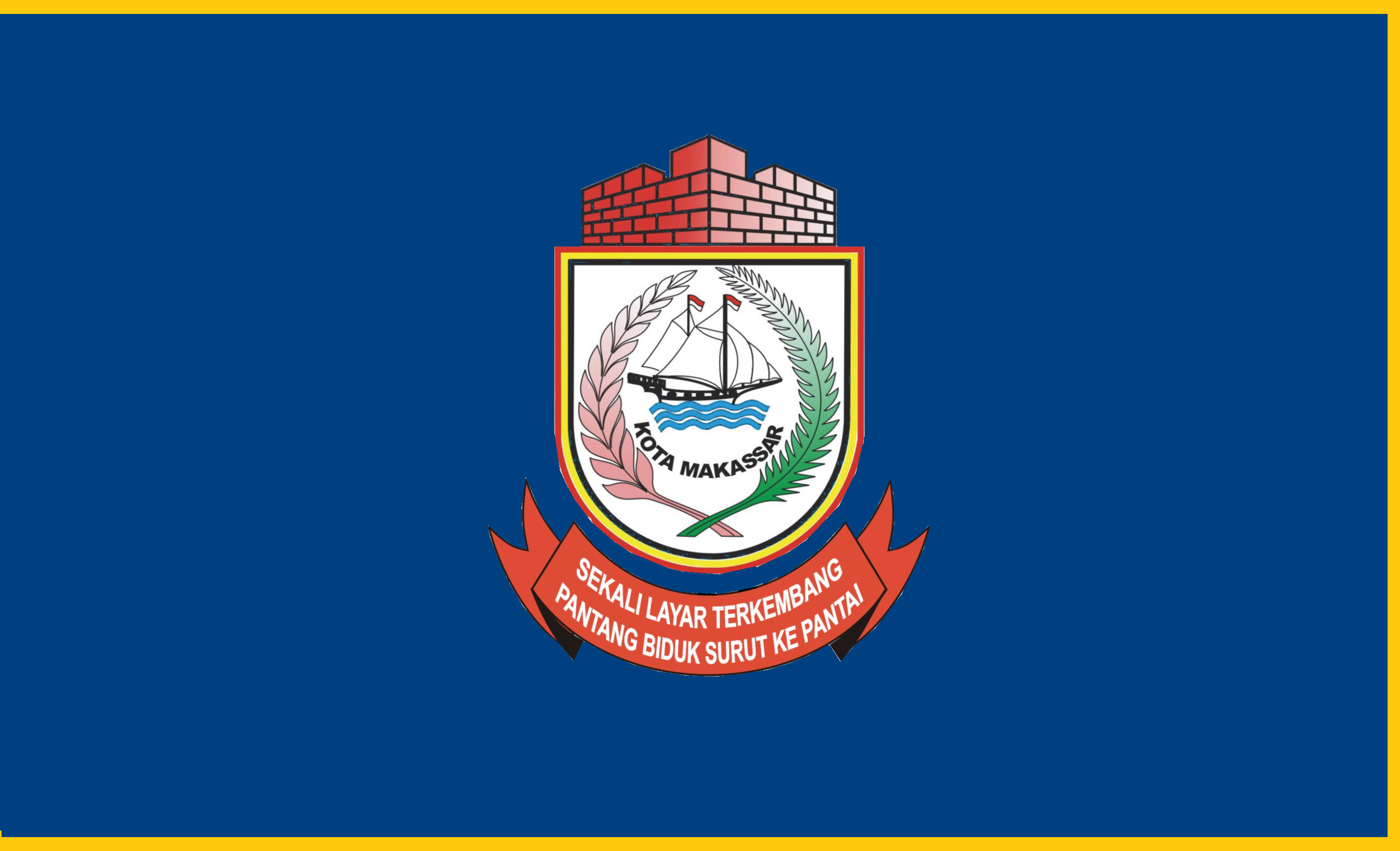 Makassar city flag Category